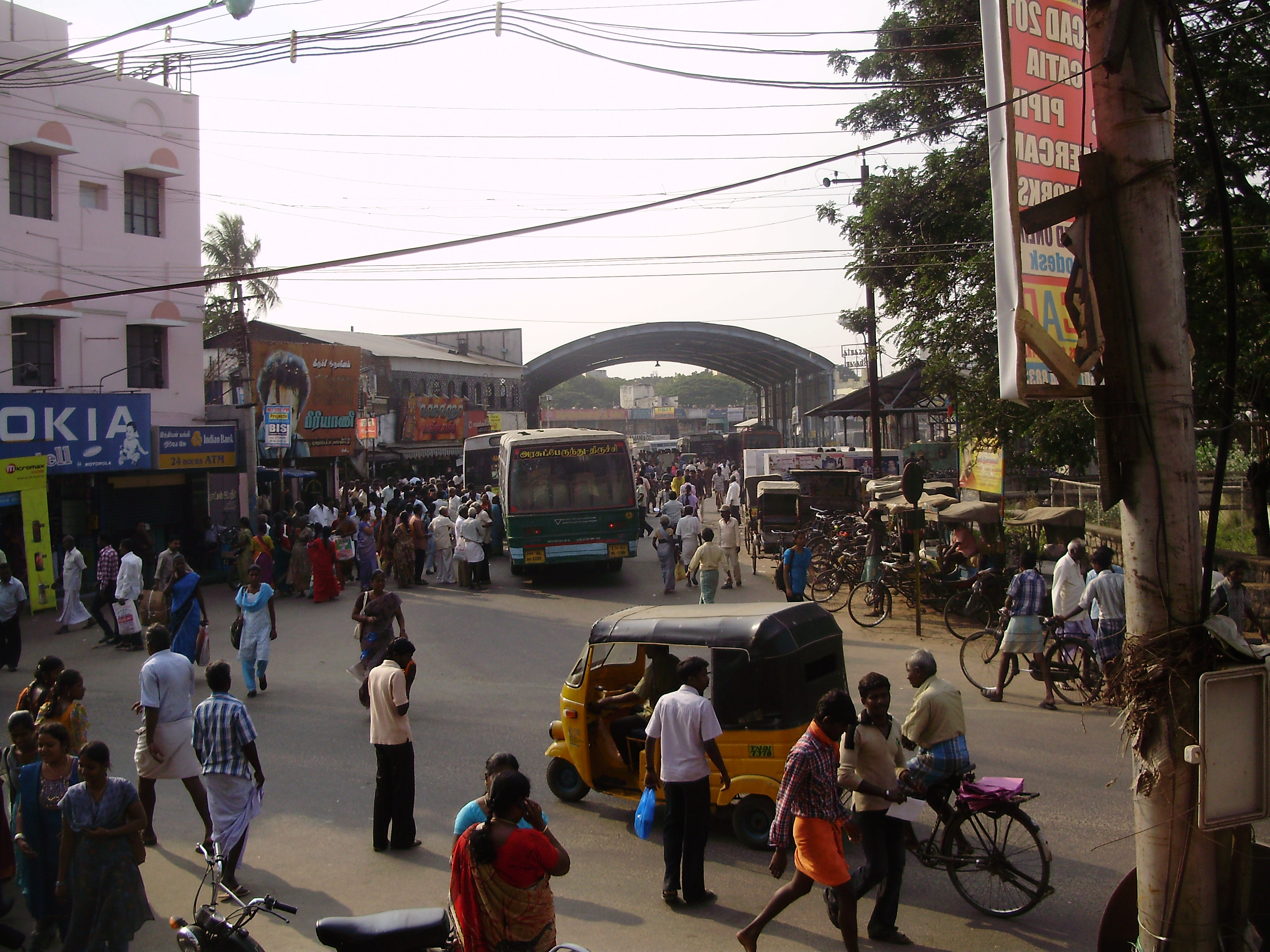 Buses proceeding into Lalgudi Platform at Chatram Bus Station, Tiruchirappalli.